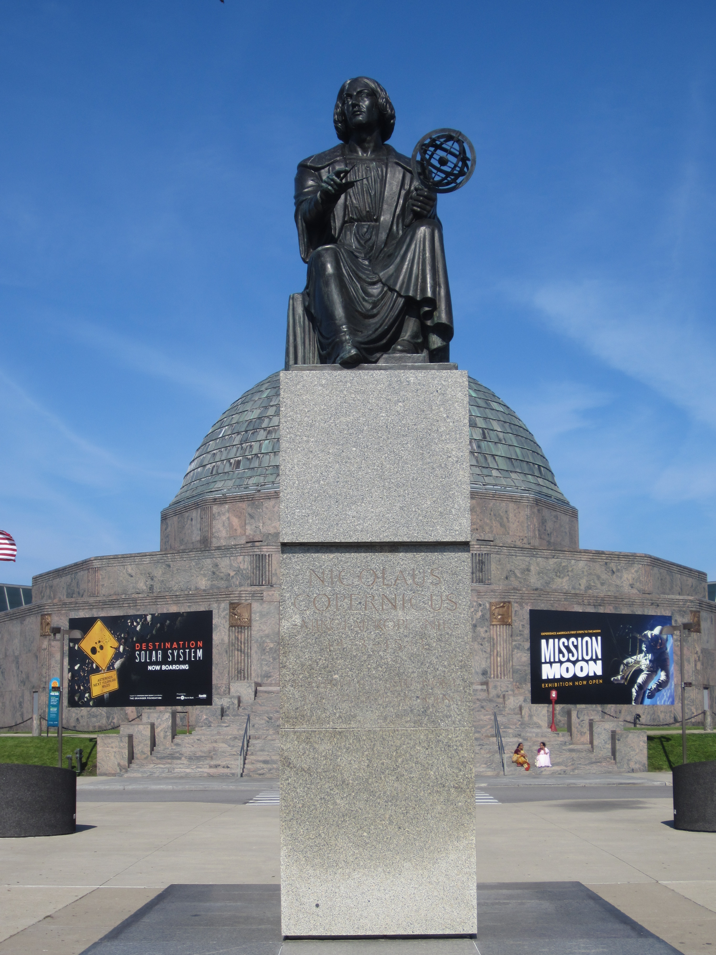 Chicago, Illinois, June 2015